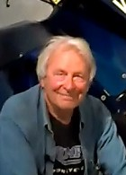 Craig Vetter with his 1981 Streamliner. Picture taken at AMA Museum in July 2016.